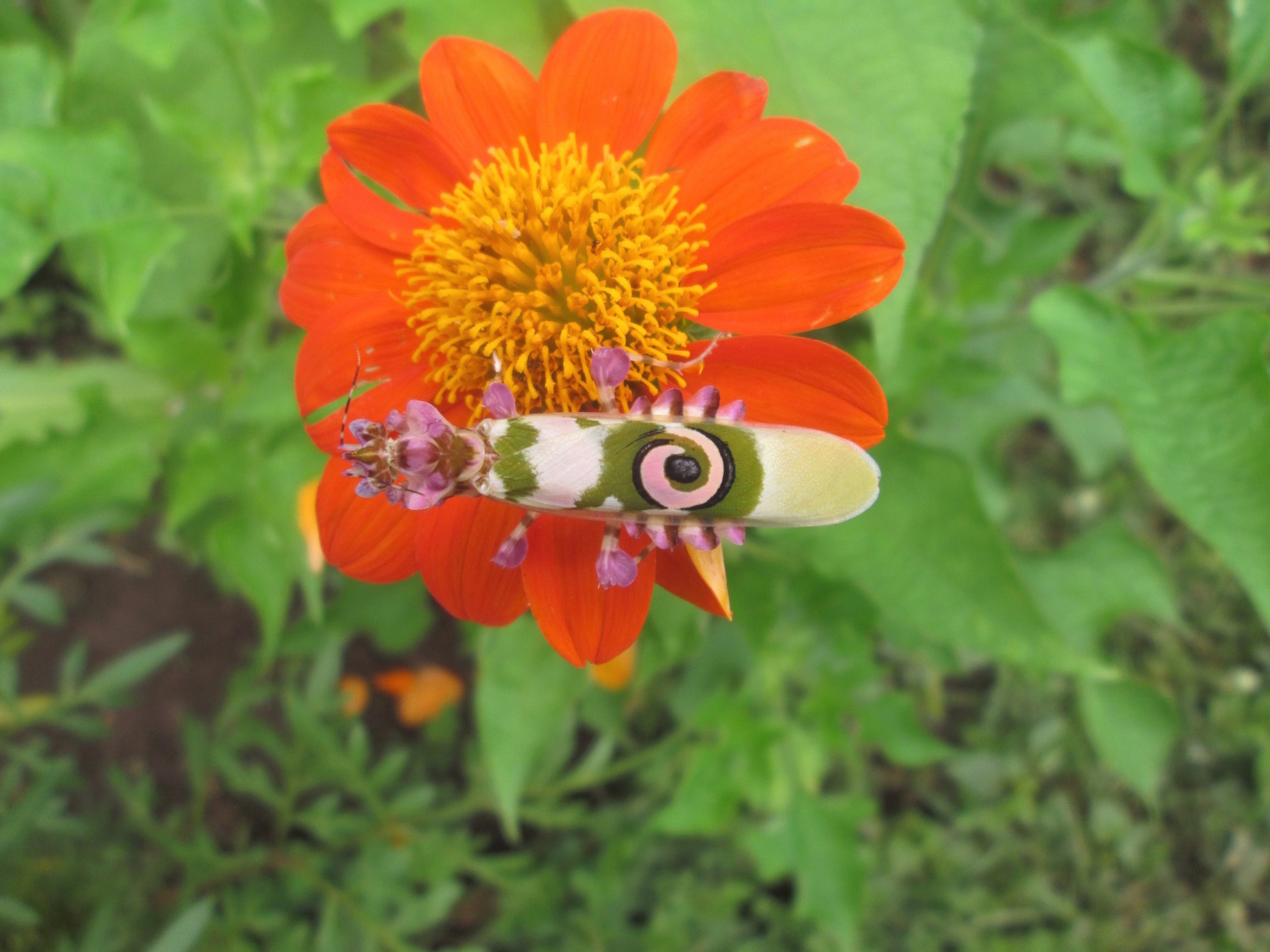 The image is a zinnia with this Spiny flower mantis settled on it. I took the picture in March (beginning rainy season) in Moshi, Tanzania